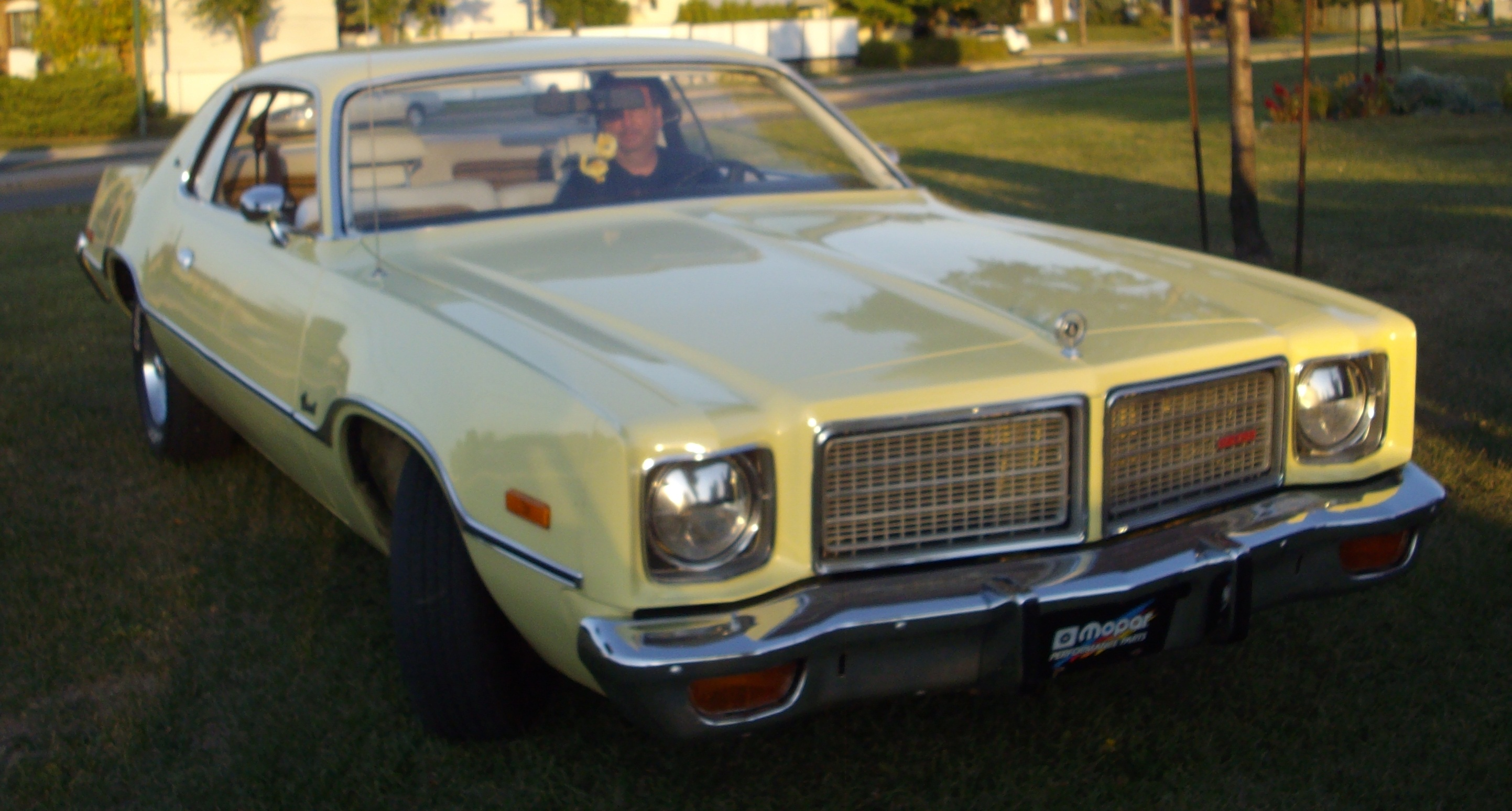 1976 Dodge Coronet photographed in Brossard, Quebec, Canada at Auto classique Combos Express.